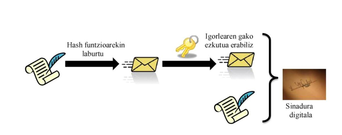 Sinadura